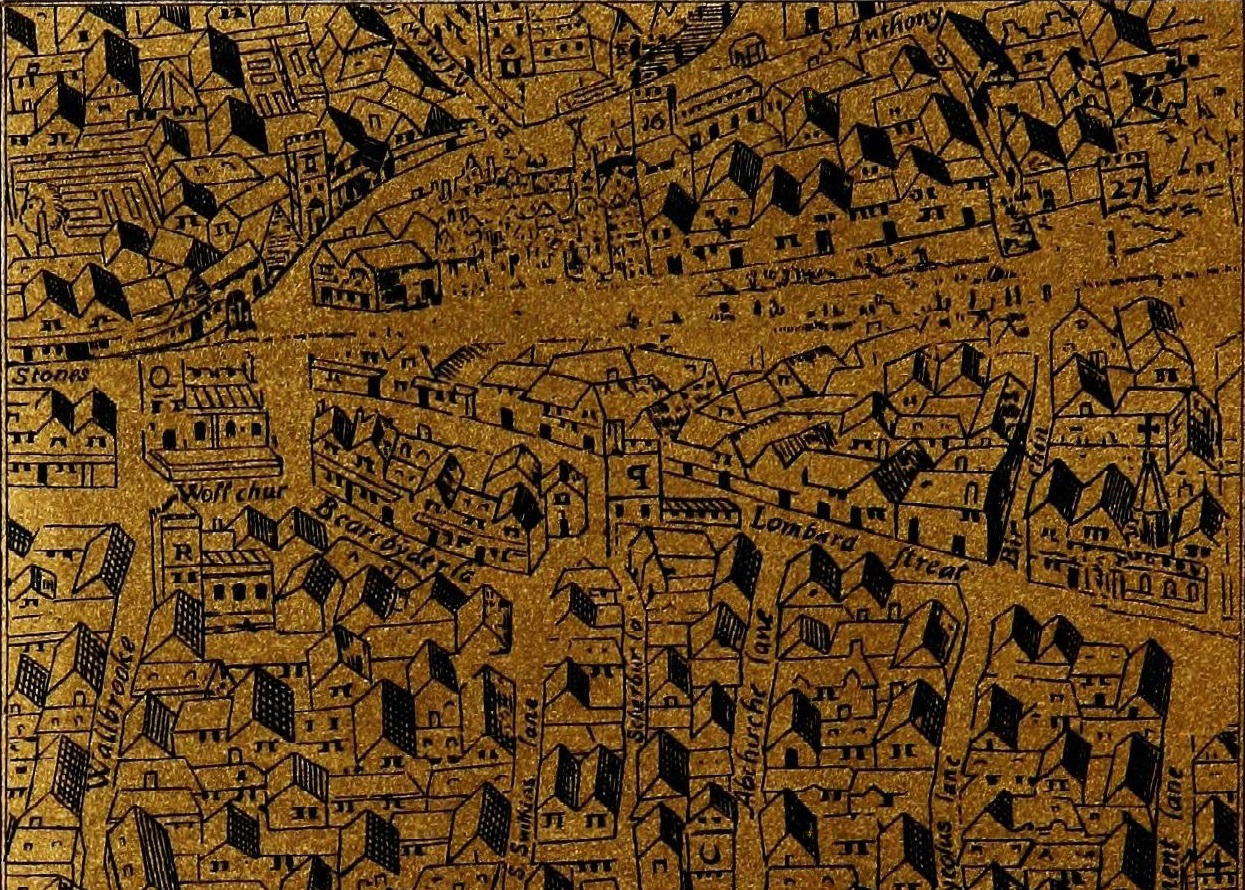 A section of the late 16th century map, "Civitas Londinium", showing Lombard Street, St Mary Woollchurch Haw, St Mary Woolnorth and St Stephen's, Walbrook.